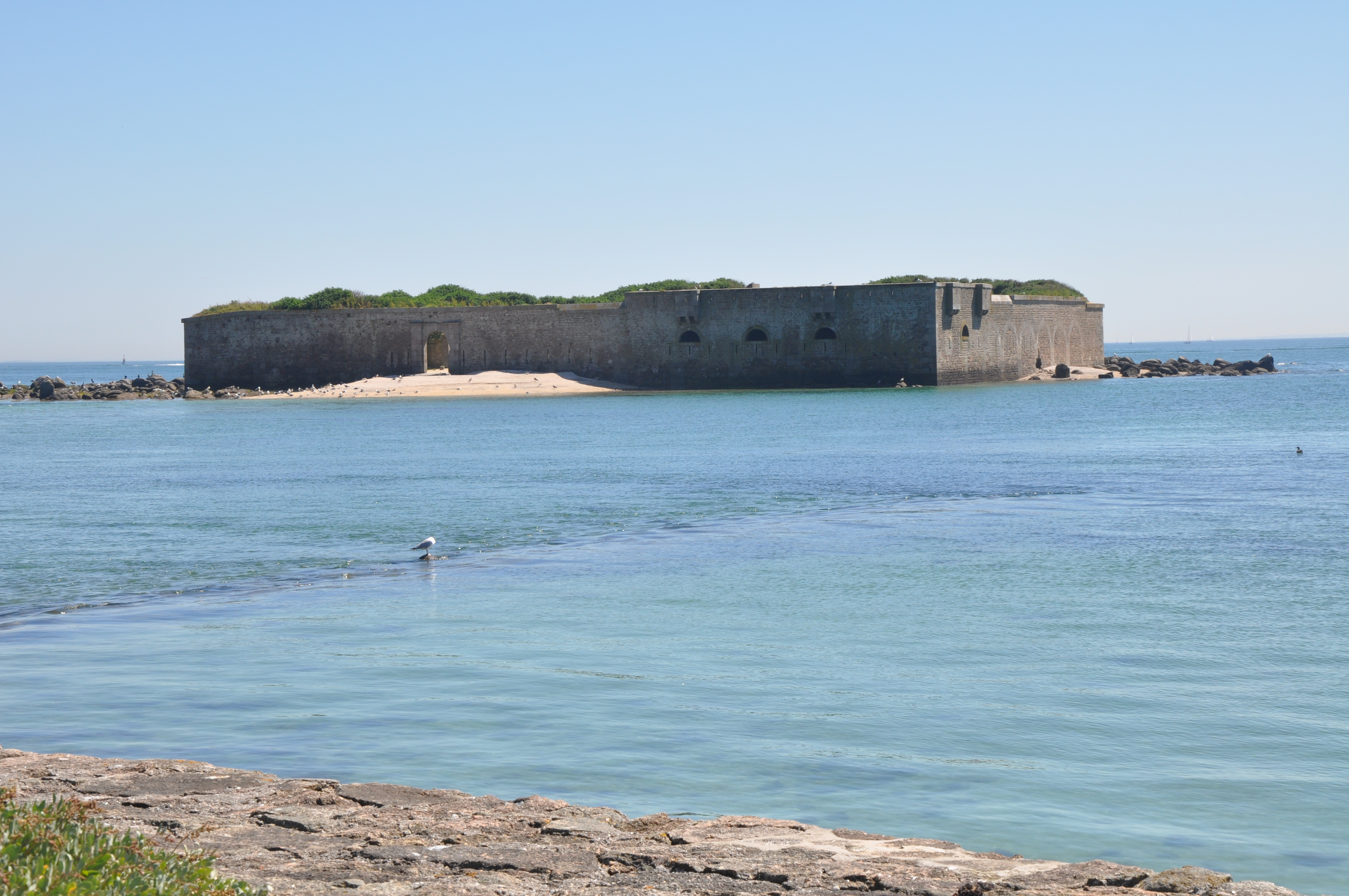 Island of Tatihou, in front of Saint-Vaast- la Hougue (France, Normandy).